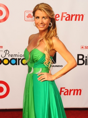 Elizabeth Pérez, TV Personality, at the 2009 Billboard Latin Music Awards in Miami